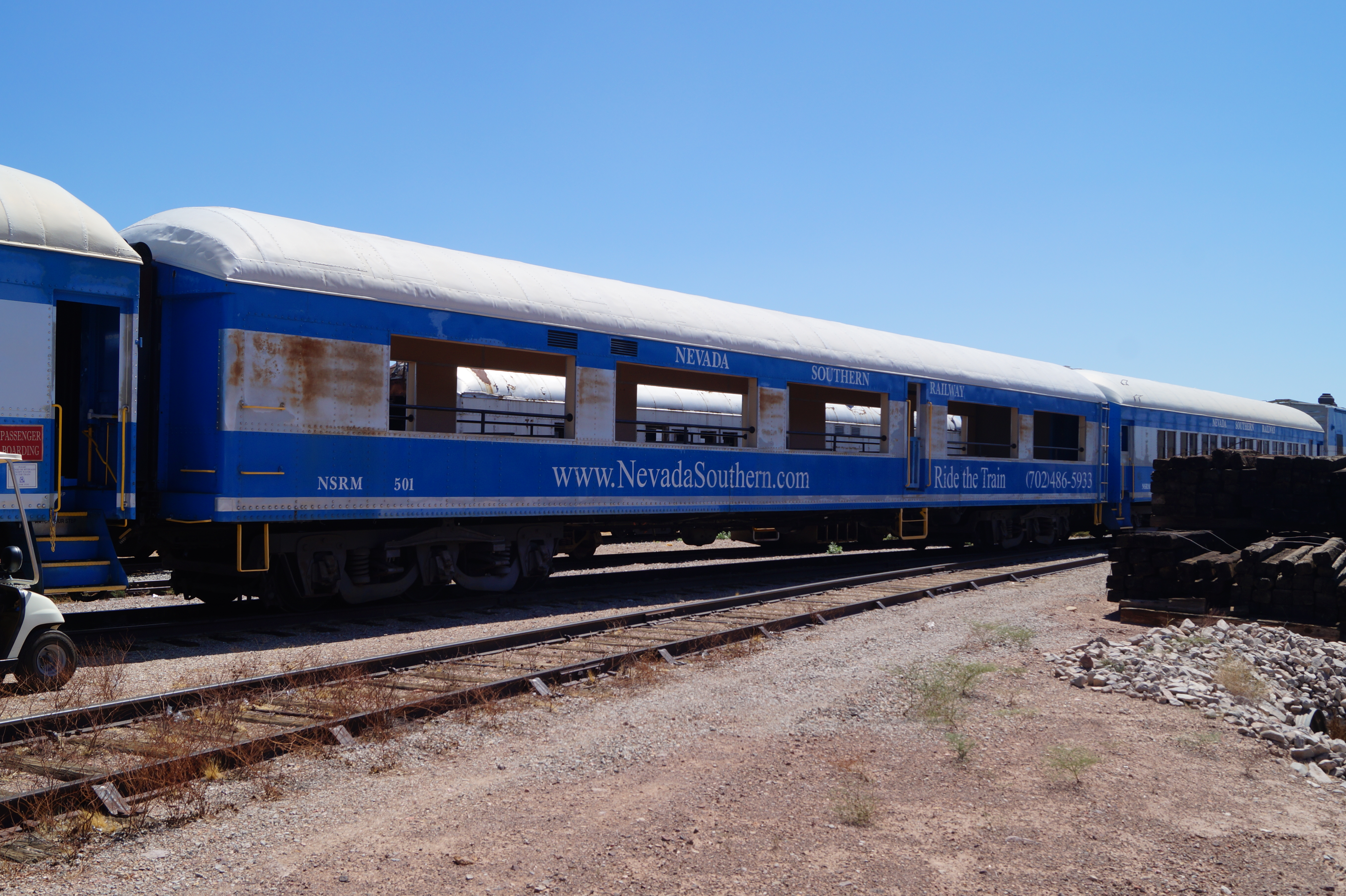 The Nevada State Railroad Museum which is an agency of the Nevada Department of Cultural Affairs. It is located at Yucca Street on the tracks of the historic Union Pacific Railroad branch Henderson-Boulder City near the former Boulder City Railroad Yards where the Hoover Dam construction equipment was unloaded in the 1930s.